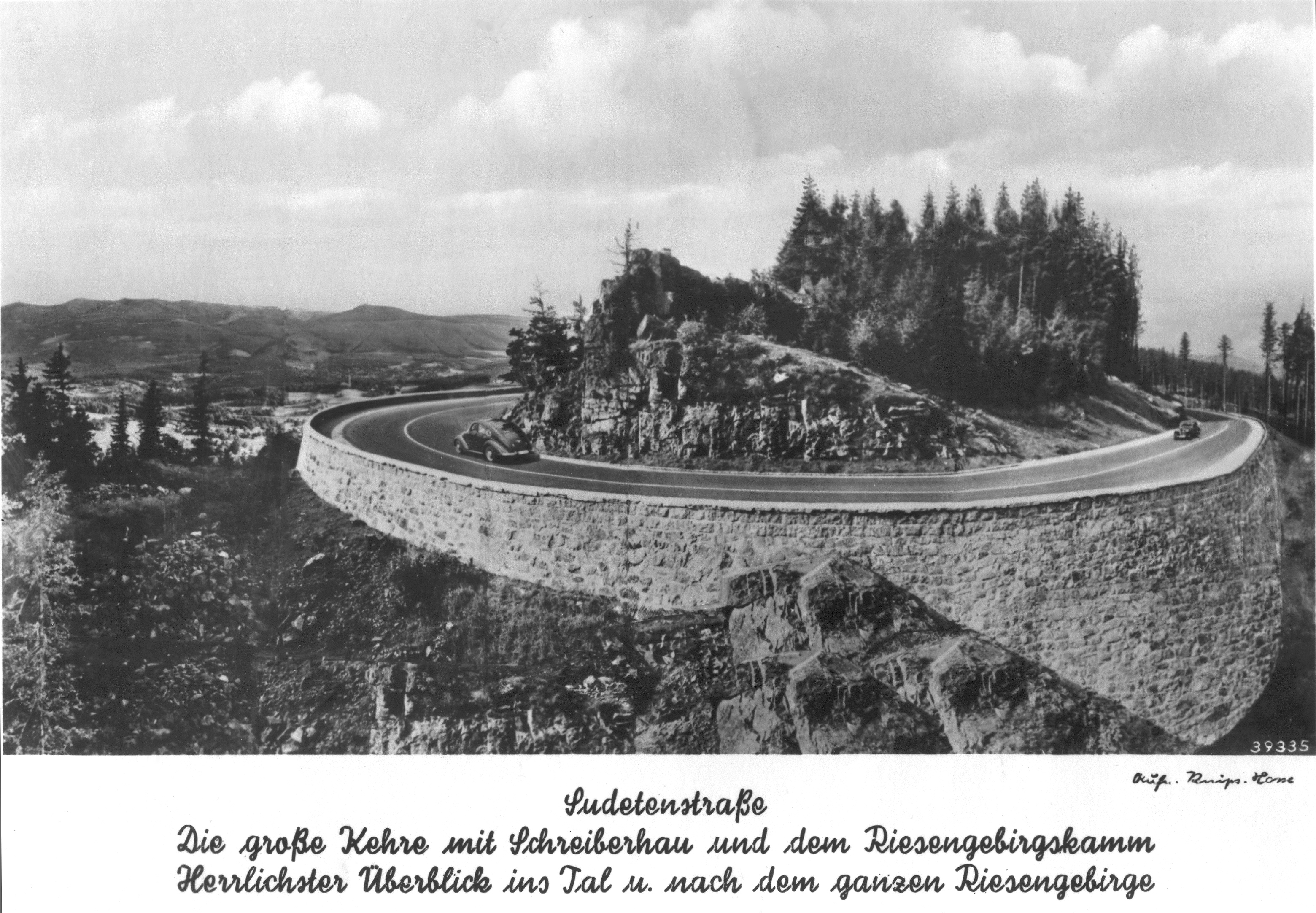 Death Curve (Zakręt Śmierci) on the Sudety Road from Szklarska Poręba to Świeradów-Zdrój, Germany, now Poland.